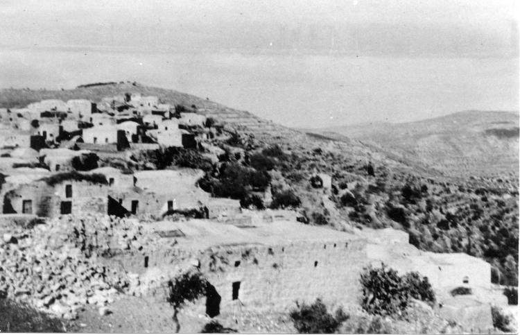 Ras Abu 'Amman 1948